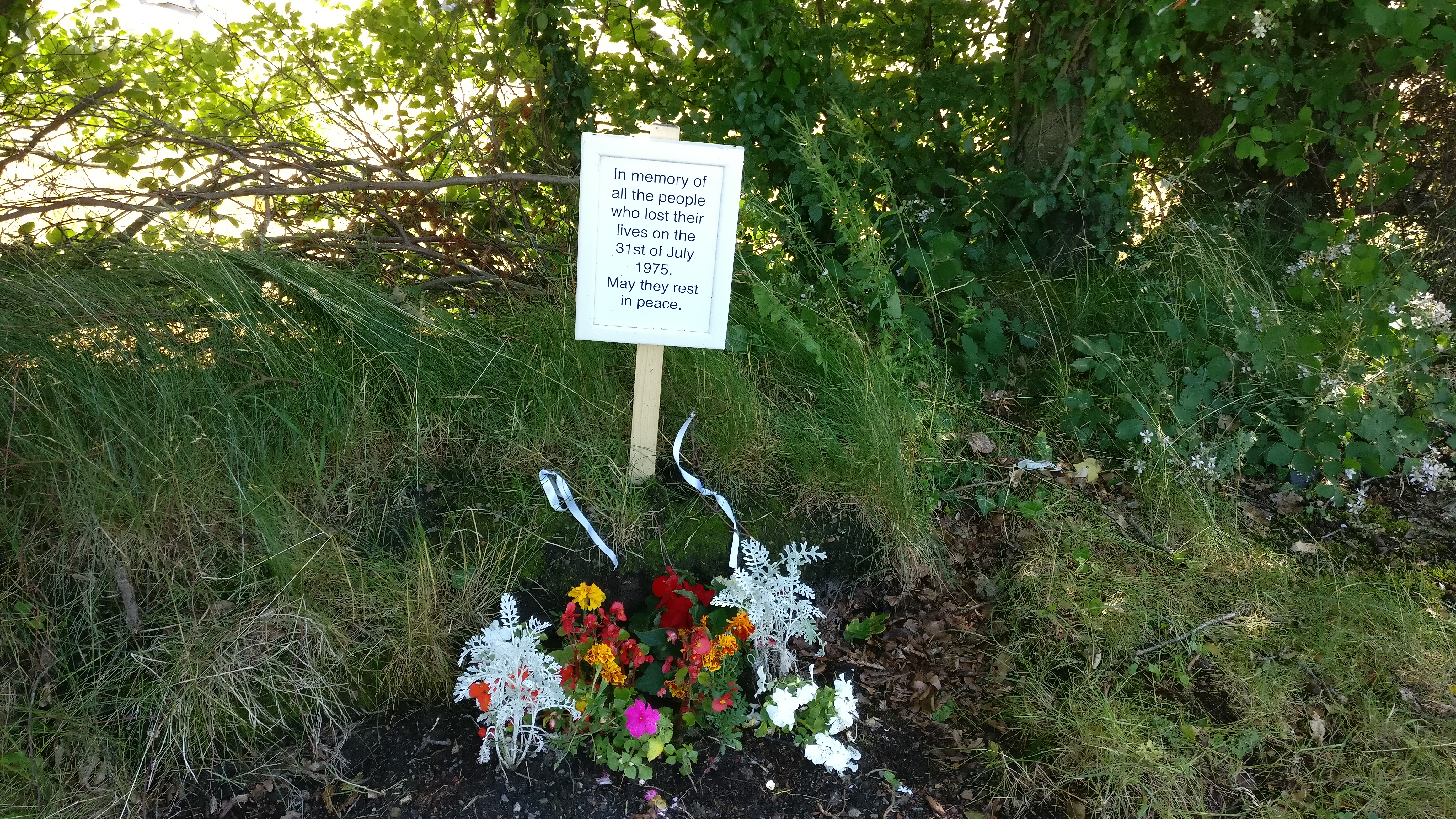 Simple Memorial Plaque at location of the Miami Showband Killings in 2019